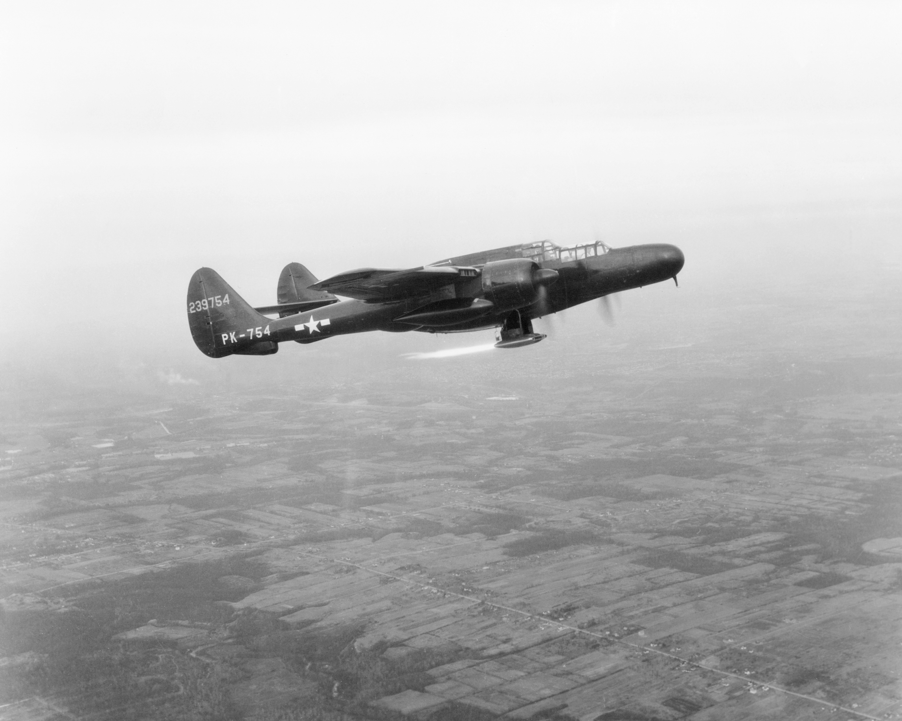 P-61 airplane in flight test with ramjet burning. The P-61 aircraft was built by Nothrop and used by the Aircraft Engine Research Laboratory or AERL of the NACA to test the new jet engine. The AERL is now NASA's John H. Glenn Research Center in Cleveland, Ohio.